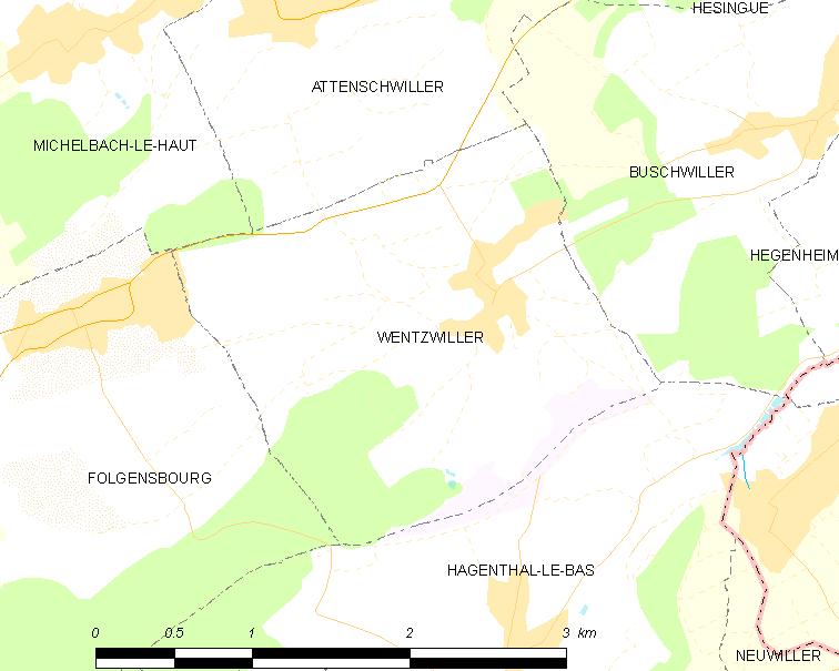 Map of French municipality